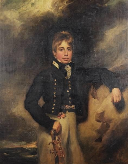 Portrait of Midshipman (later Captain) John Windham Dalling (1 August 1789 – 10 October 1853) of the Royal Navy, one of the younger sons of General Sir John Dalling, 1st Baronet (c. 1731 – 16 January 1798). The portrait commemorated his presence on H.M.S. Defence at the Battle of Trafalgar.